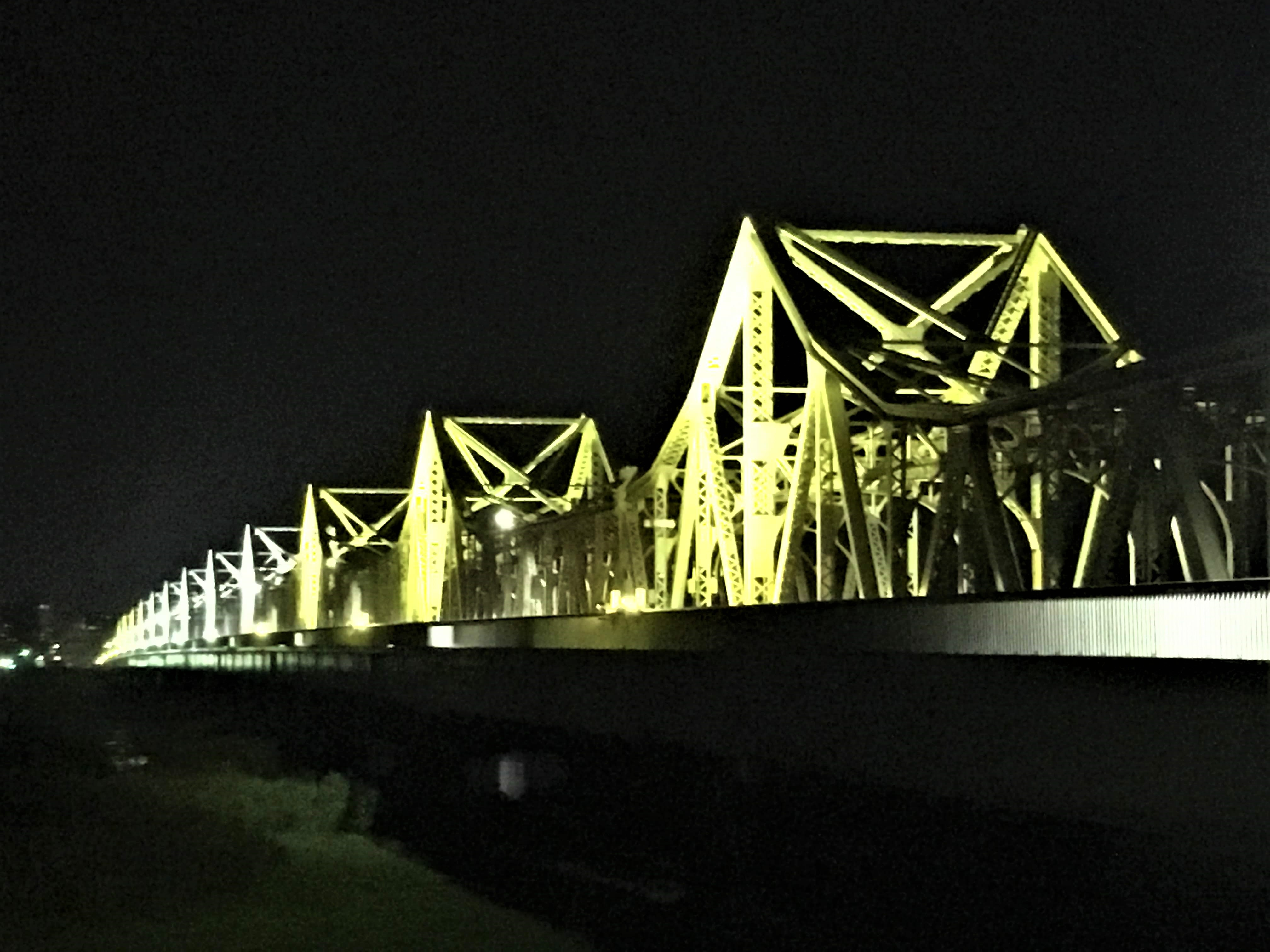 Chosei bridge. Nagaoka , Niigata.